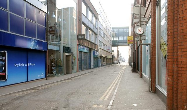 Callender Street, Belfast. Callender Street is a nondescript thoroughfare running from Castle Lane 563987 to Chichester Street 438898 (middle right). There is no through vehicular traffic for most of the working day. The only significant sounds are of human footsteps and "caution - this vehicle is reversing". Callendering was a process in the making of linen. The view is towards Chichester Street.